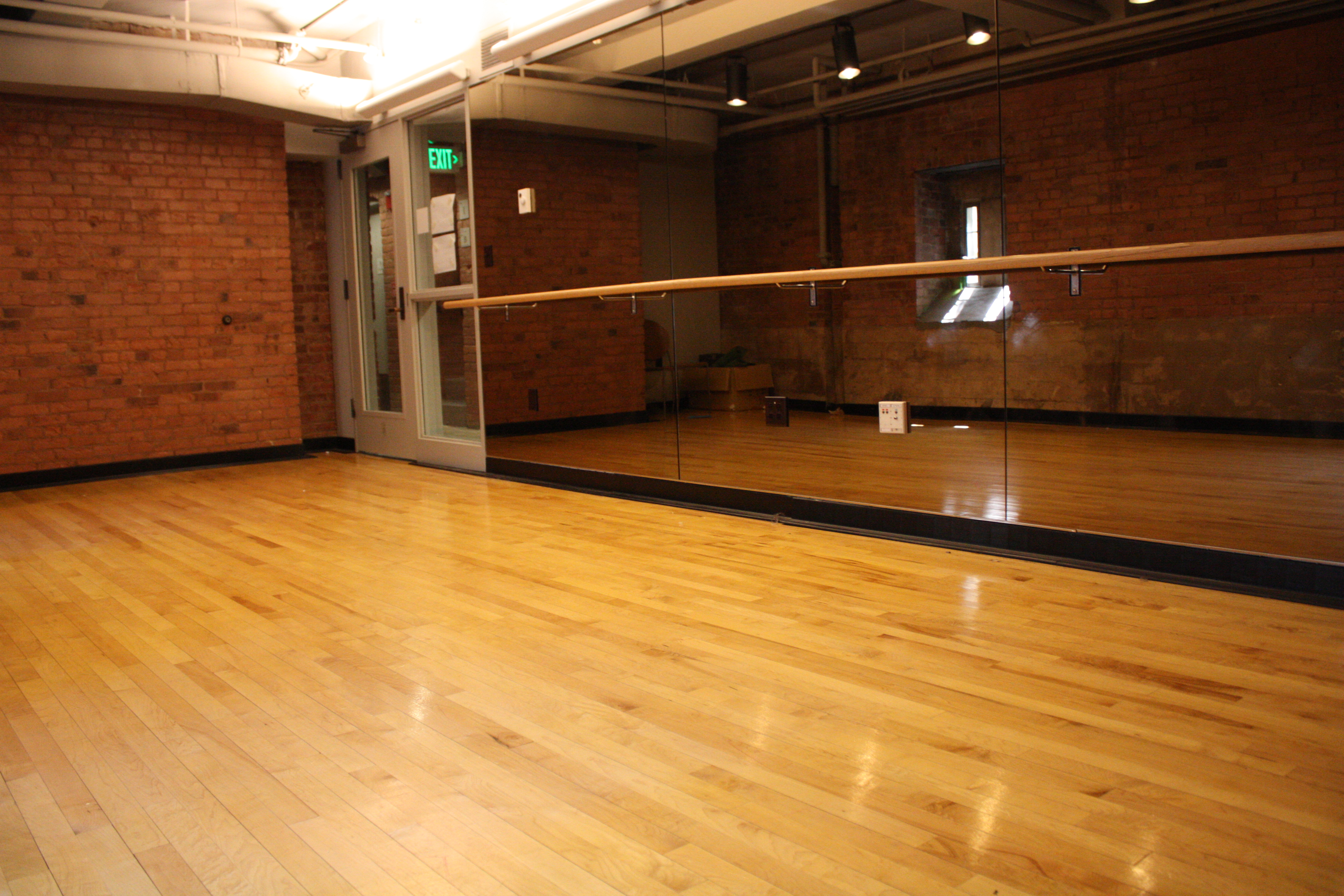 The dance studio